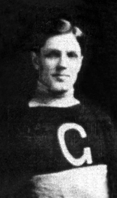 Canadian ice hockey player Jim Mallen with the Galt Professionals of the OPHL in the 1911 season.